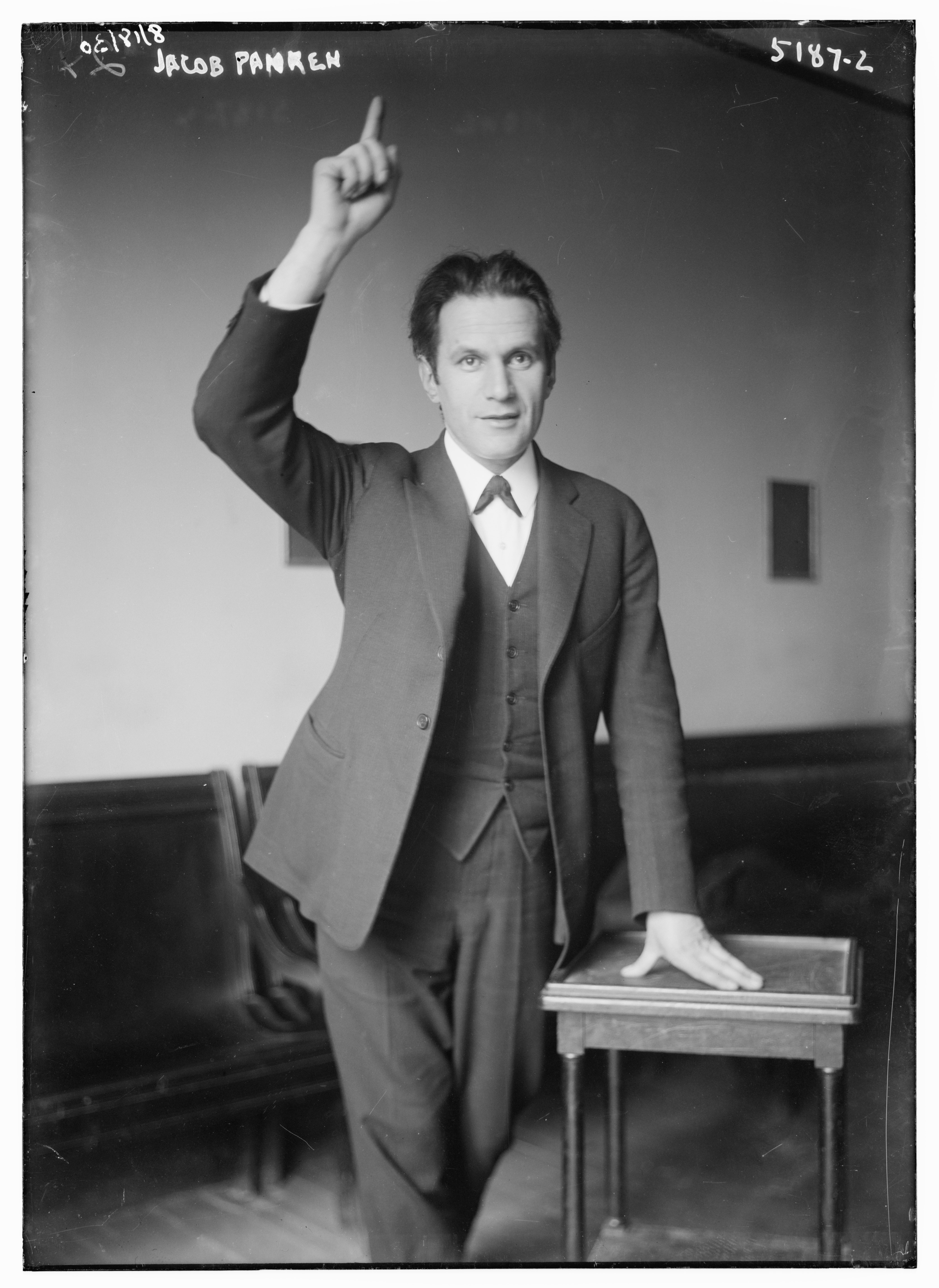 Jacob Panken in 1920